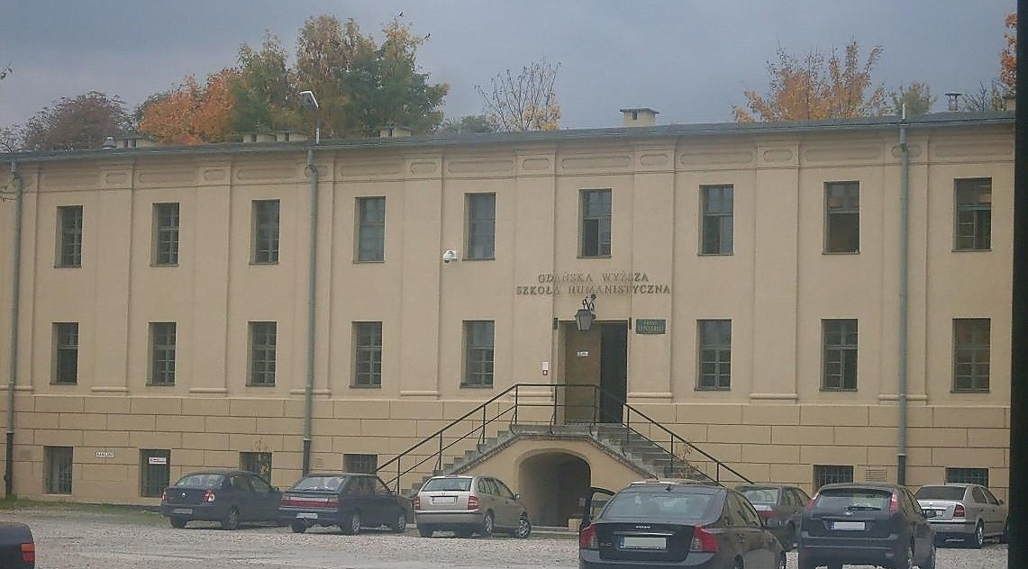 Gdańsk Humanistic Academy.